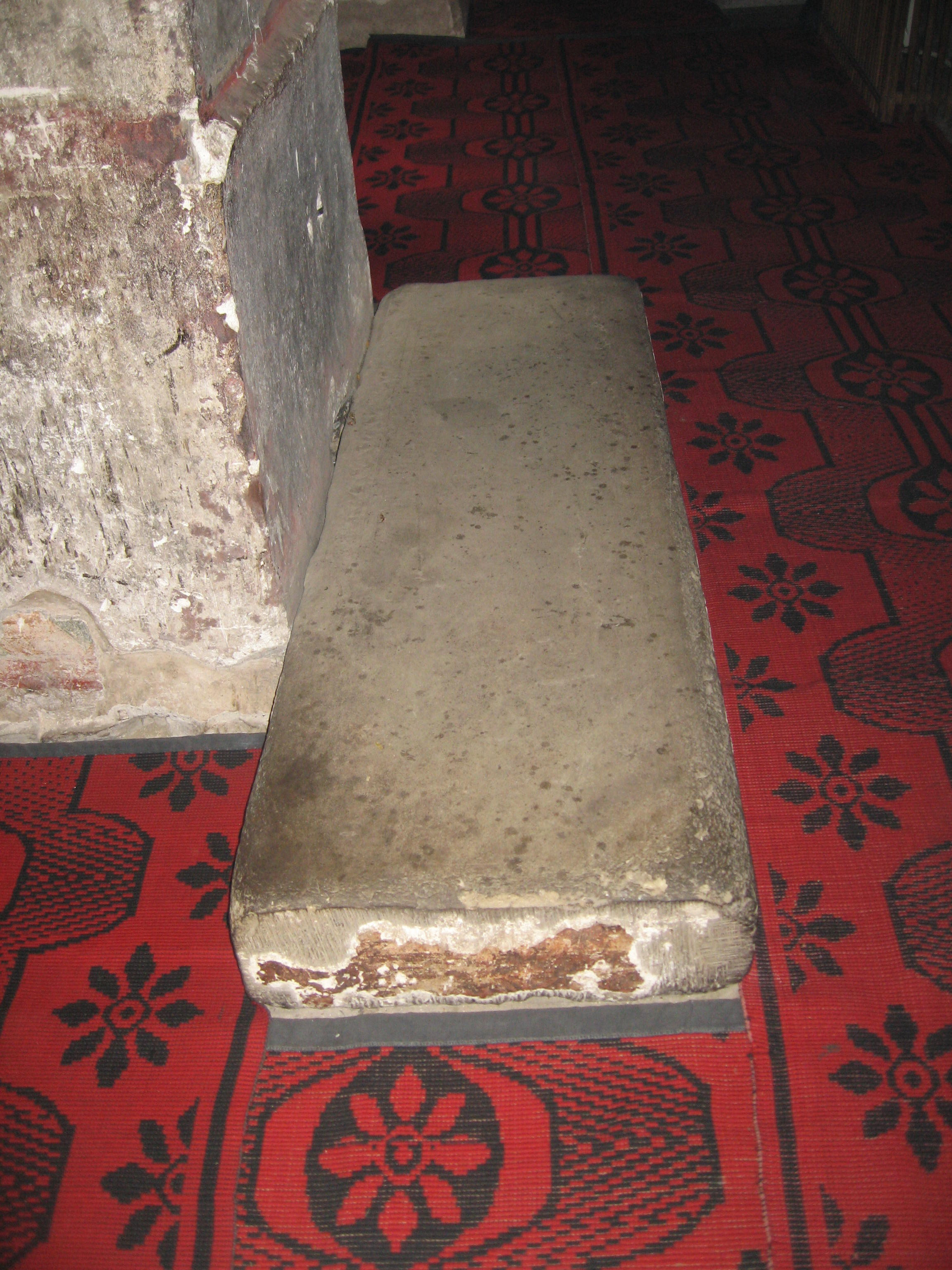 Bogdana